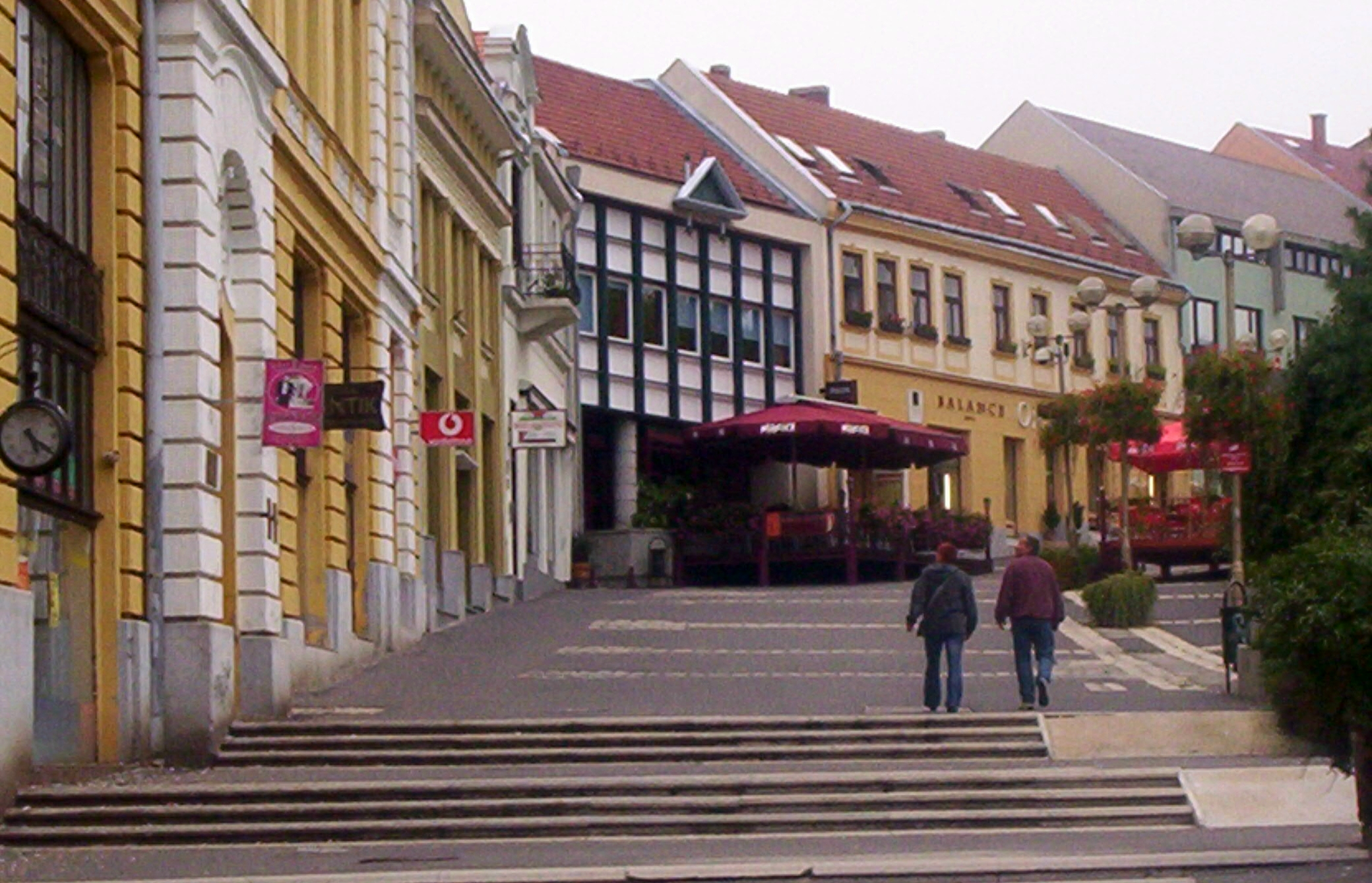 Description: Kossuth Lajos street, Veszprém